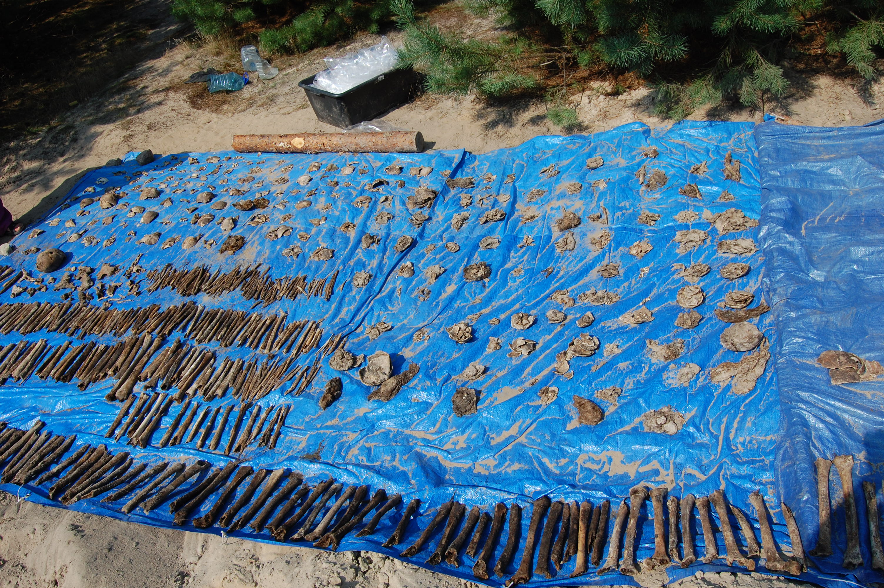 The Field of the Dead during exhumation